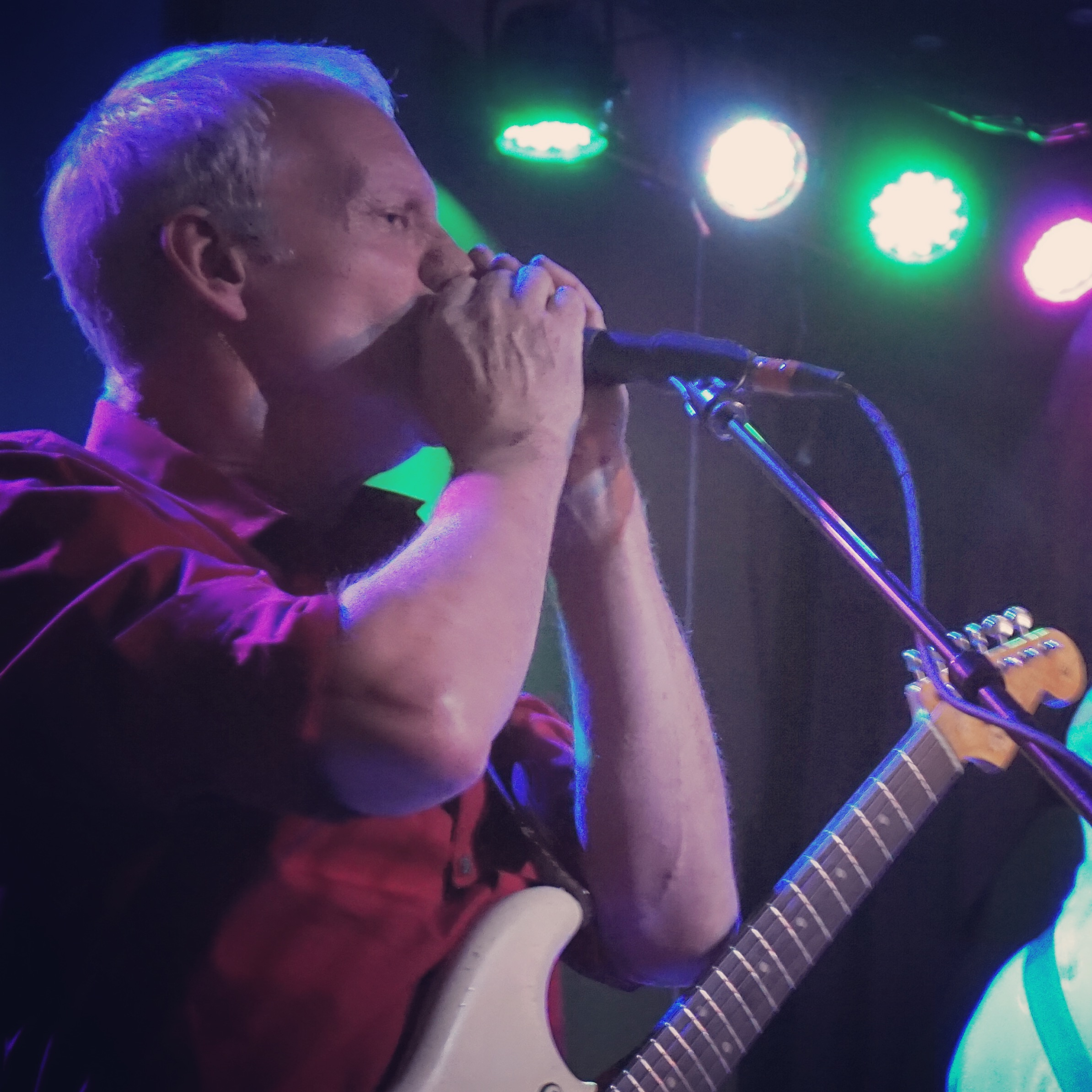 Rod Abernethy performing live with Arrogance in Raleigh, NC, 13 May 2017.